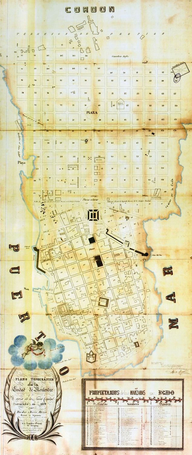 1829 map of the "Ciudad Nueva" of Montevideo, Uruguay. In that year, the National Assembly decided to pull down the fortifiactions of the Ciudad Vieja and extend the city to form the Ciudad Nueva. The tracing project was given to military engineer Don José María Reyes. In our times, the extension is the barrio Centro of Montevideo.